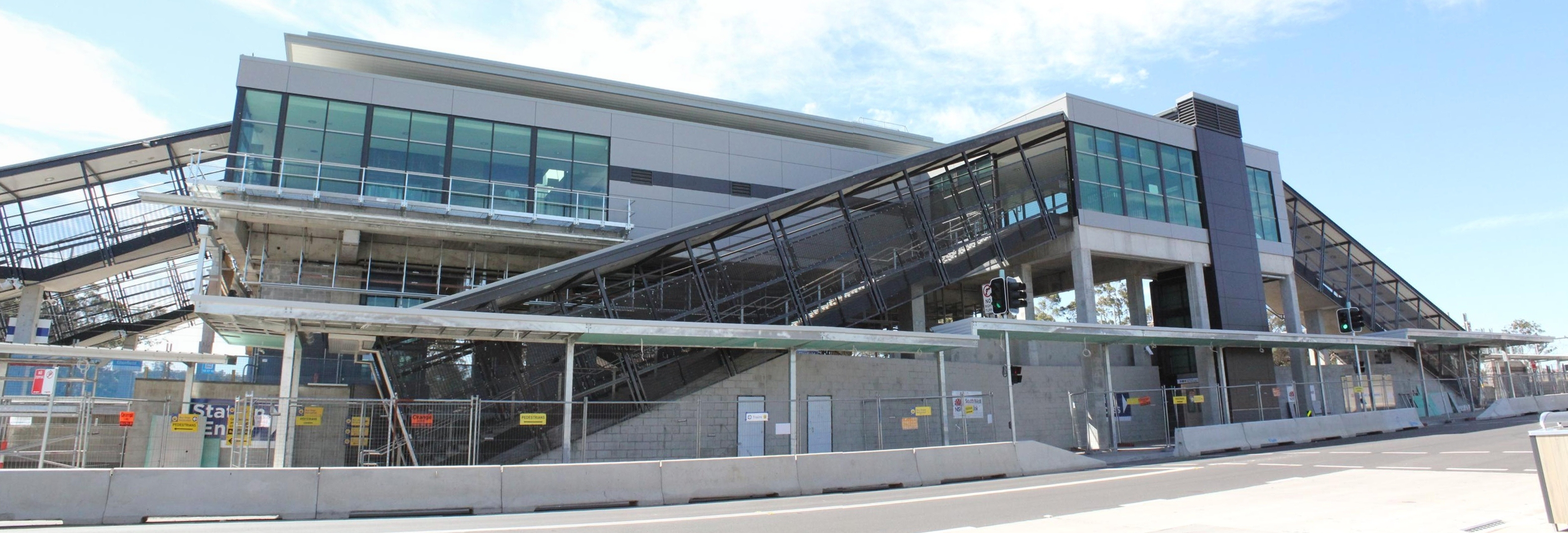 December 2012, Construction work still visible for weather shelters and bus zone.